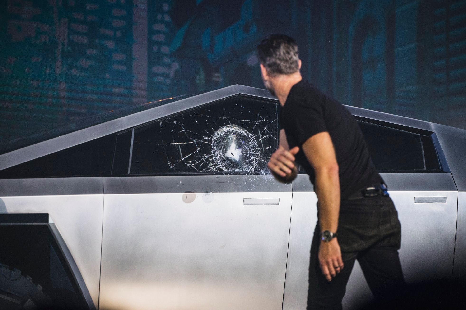 Tesla Cybertruck prototype during unveiling event on 21 November 2019, seen with Franz von Holzhausen throwing steel ball at window, immediately after impact. Shadows of the ball are visible, with the ball itself behind Franz von Holzhausen.